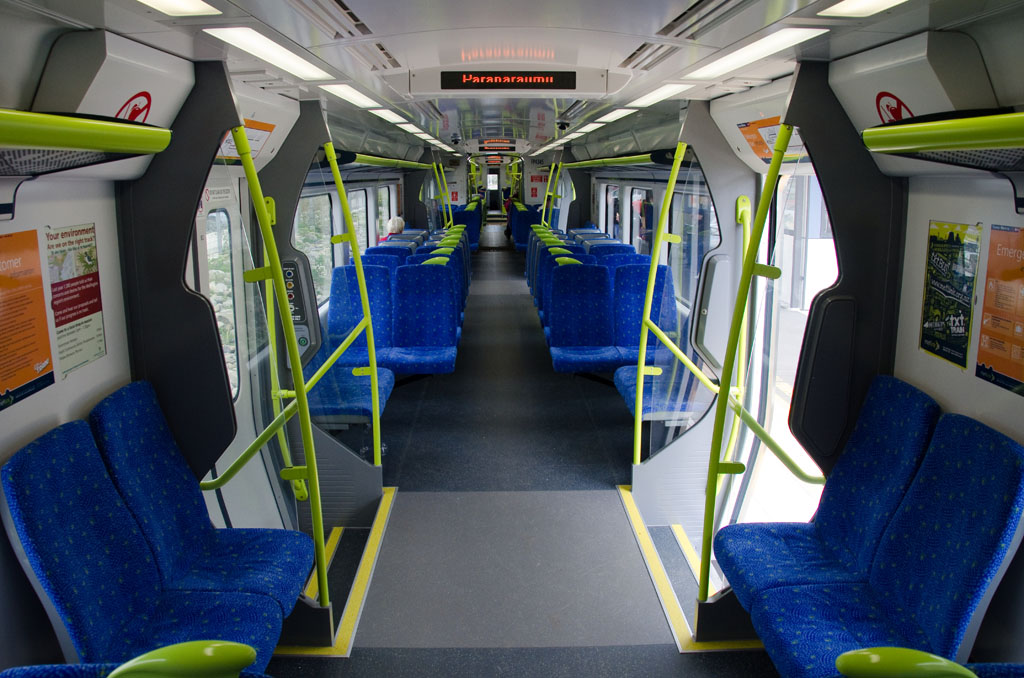 FP Car interior